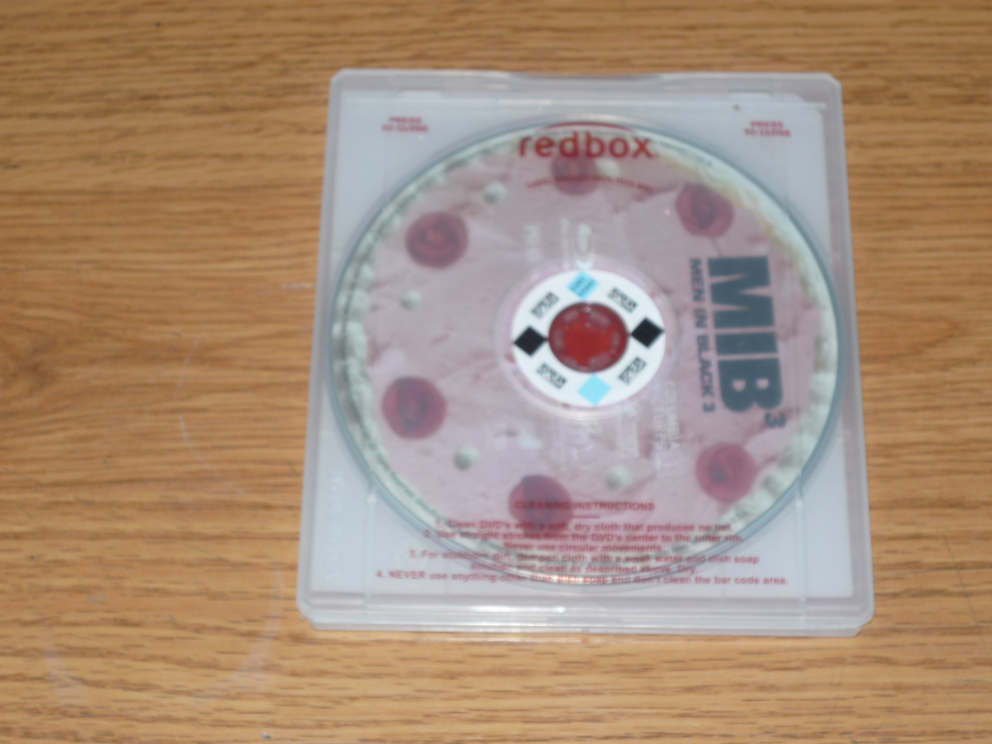 Back of Redbox case; with A Men In Black 3 Blu-ray inside